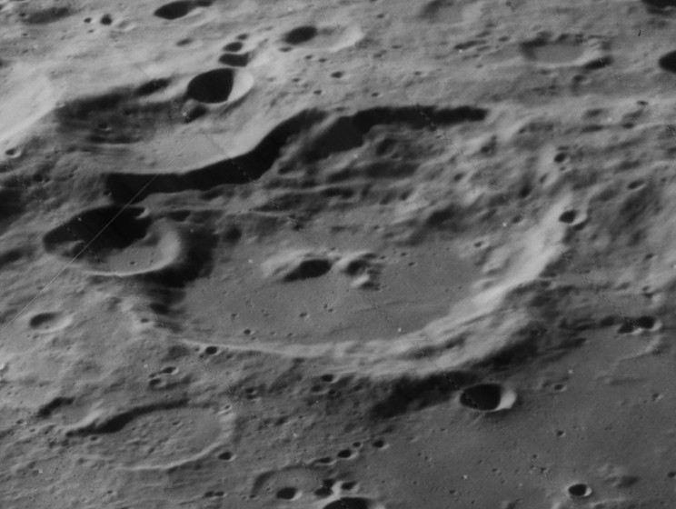 Oblique view of Wood, on the far side of the moon, facing west.